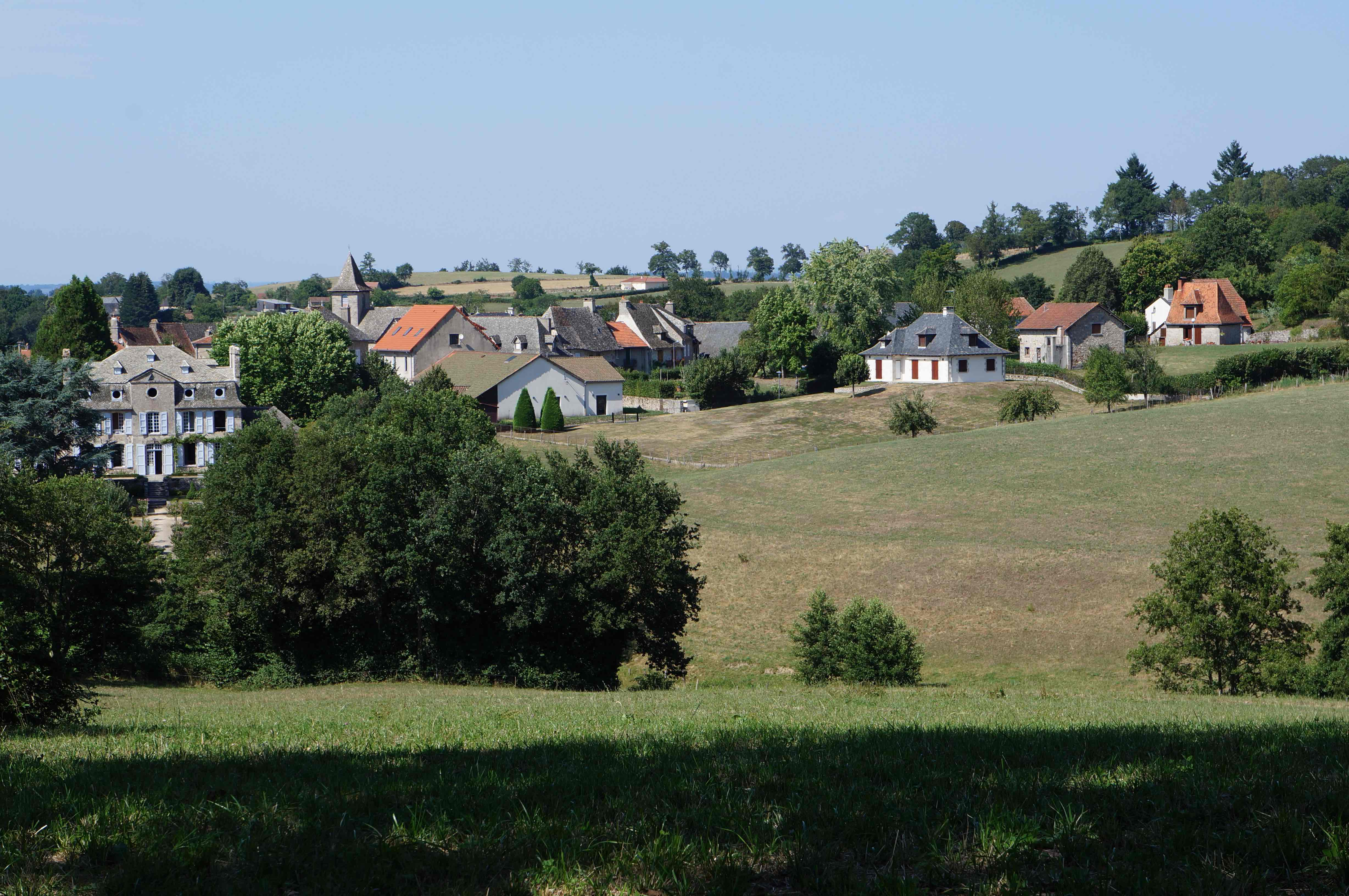 View of Omps (Cantal, Auvergne, France)